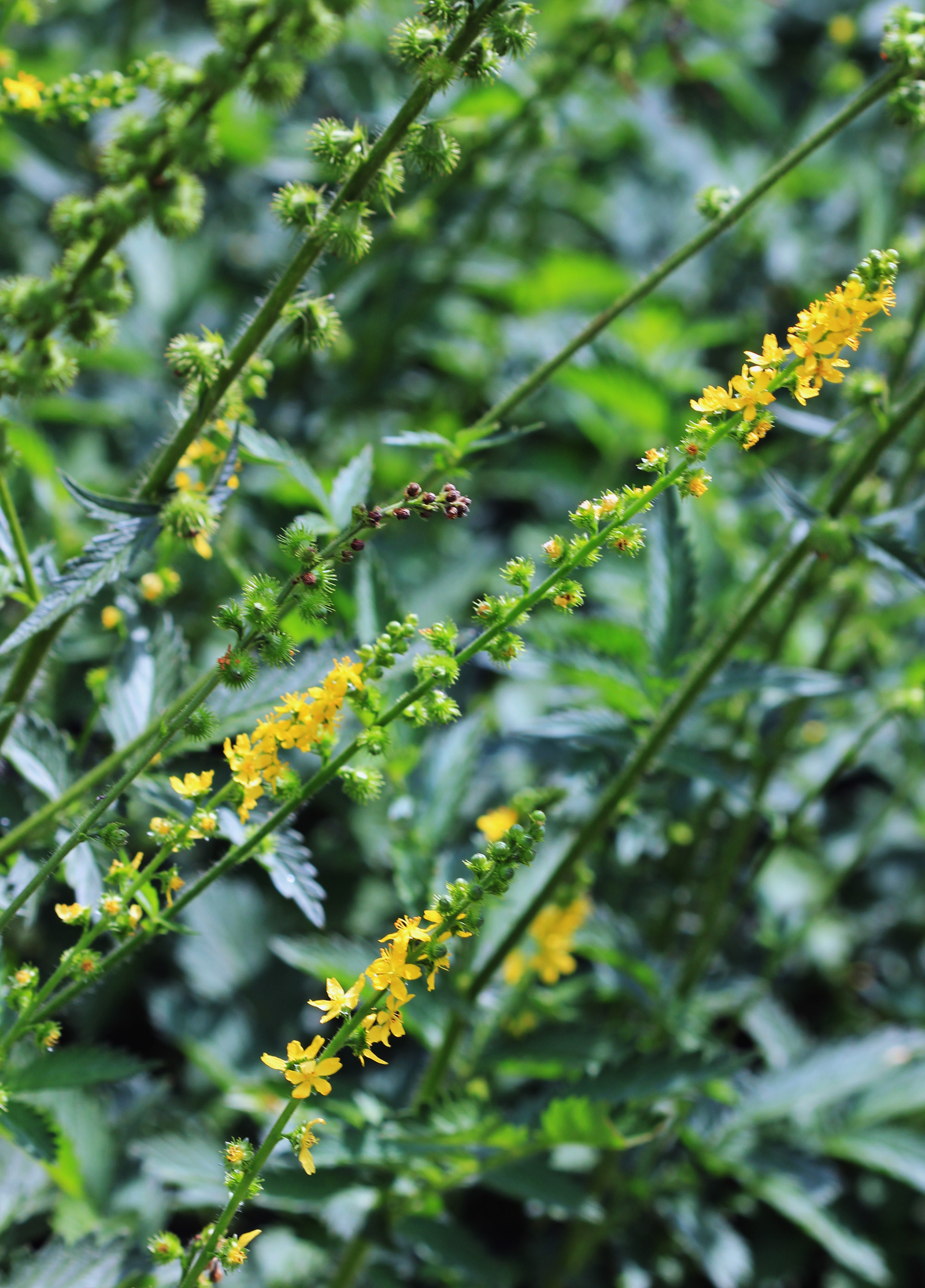 Flowers of plants Agrimonia procera from the Botanical Gardens of Charles University, Prague, Czech Republic